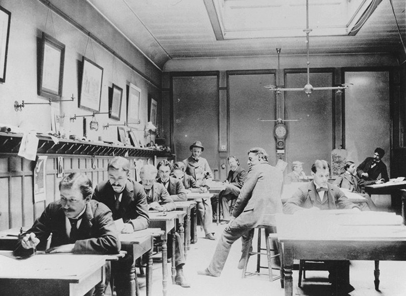 Interior view of Ferry and Class Architects office in Milwaukee, Wisconsin.